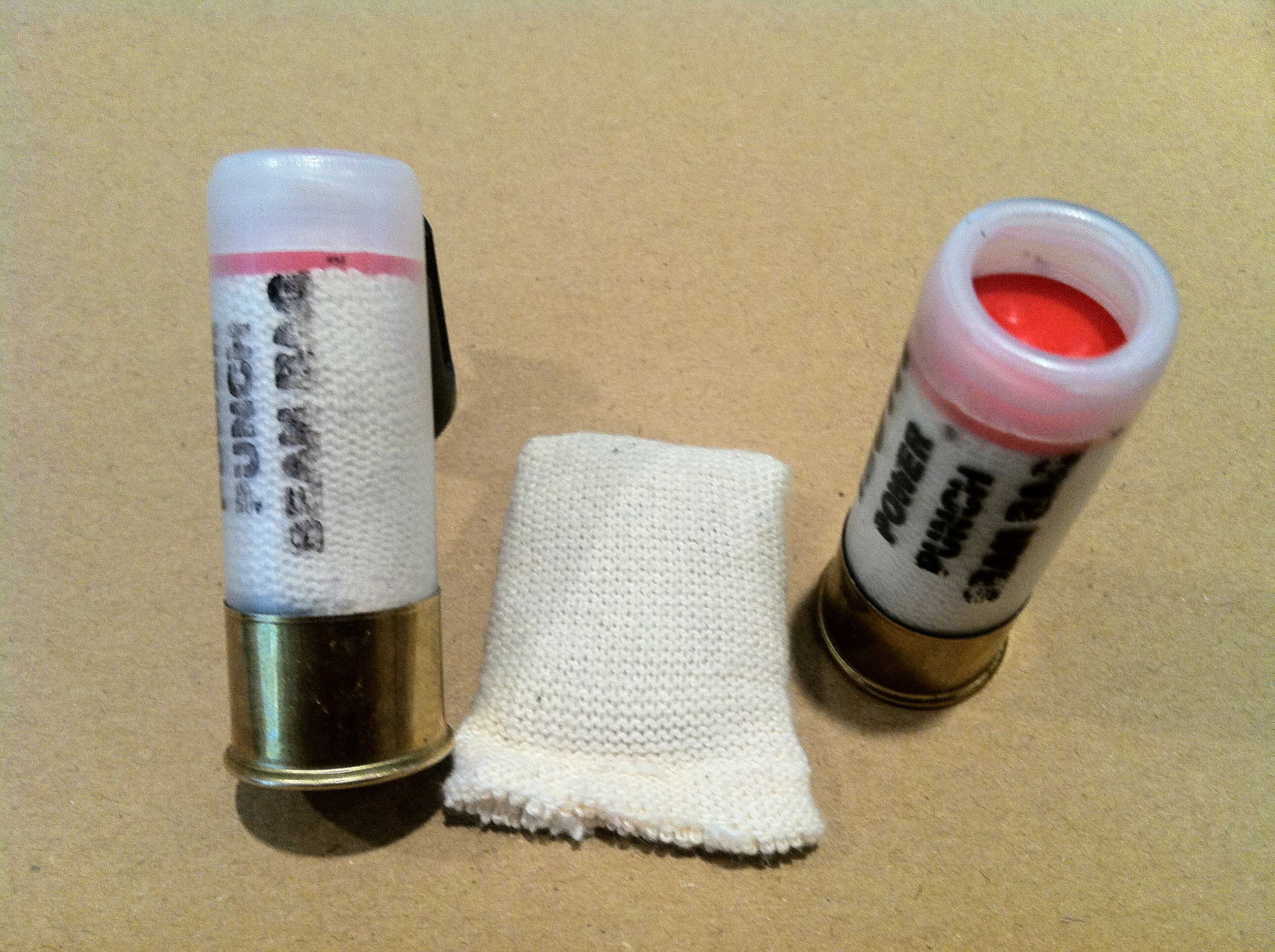 Two views of intact bean bag shotgun round, with a view of exposed bean bag round projectile between the two